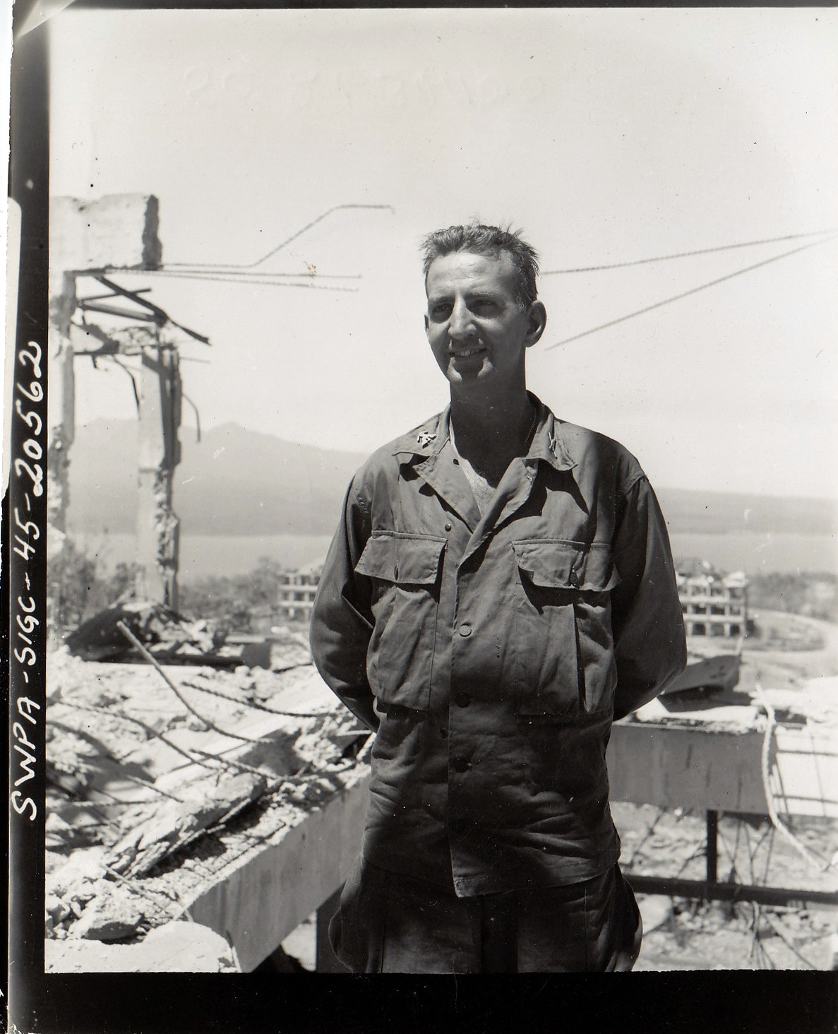 George M. Jones (February 22, 1911 - December 16, 1996) was a United States Army Brigadier General most notable for leading the 503rd Parachute Infantry Regiment in World War II.